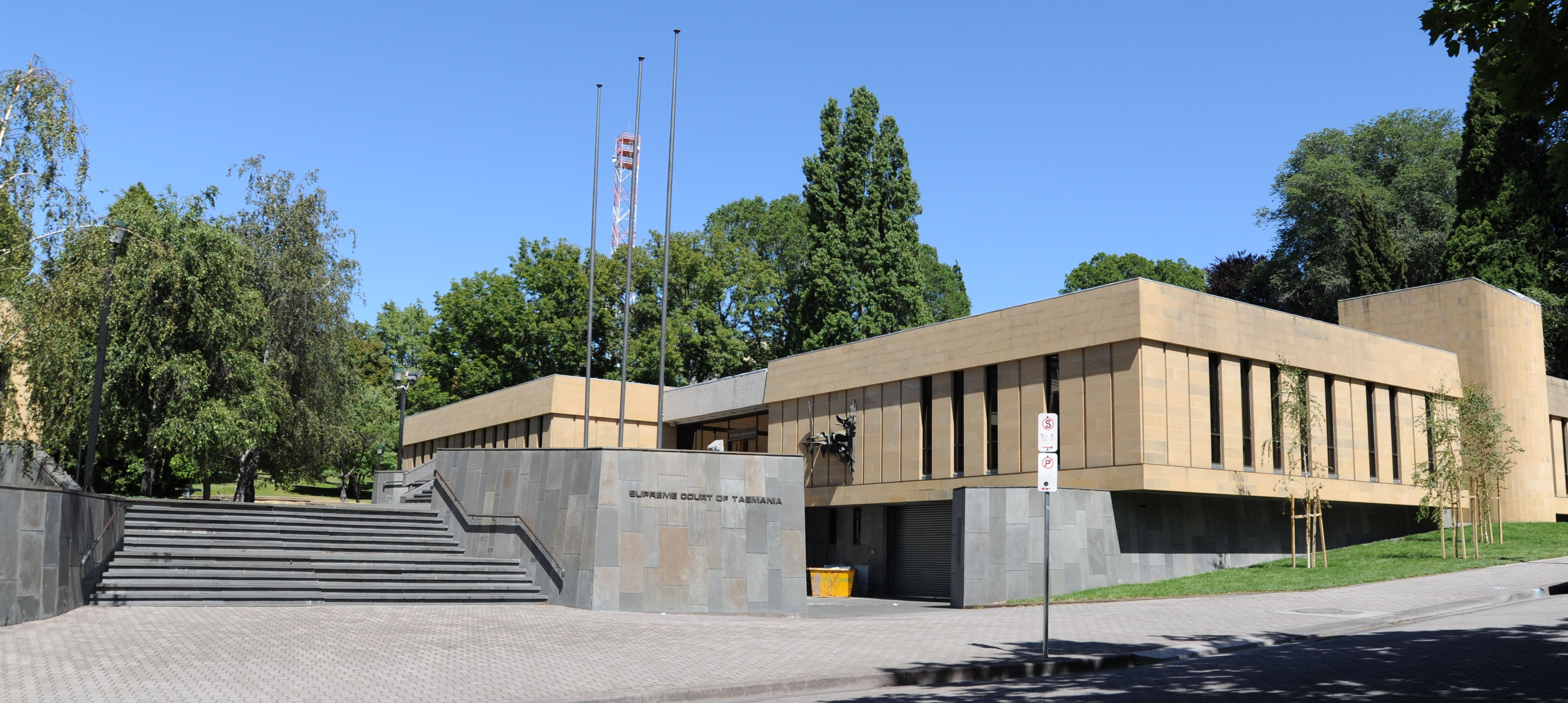 Supreme Court of Tasmania building in Salamanca Place, Hobart